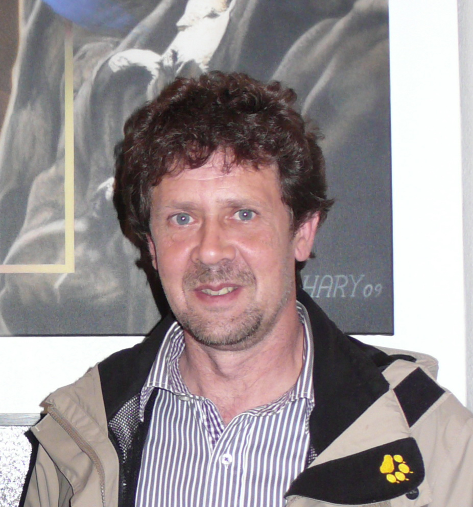 Guy Hary, painter from Luxembourg